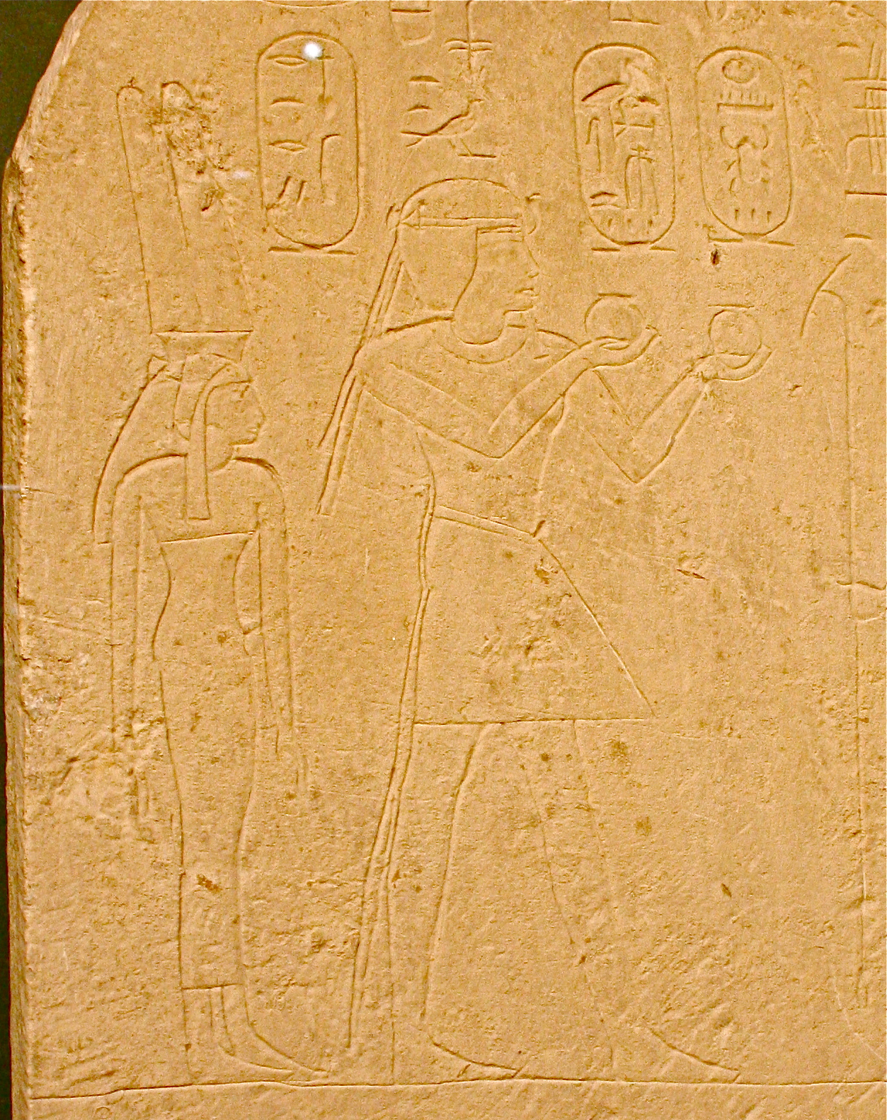 Memorial stone of Thutmosis IV; Giza, 18th dynasty